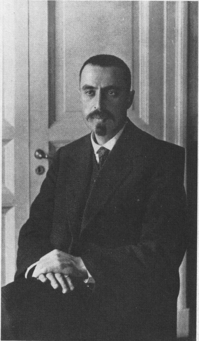 Irakli Tsereteli as Minister of Posts and Telegraph, from a contemporary postcard in 1917